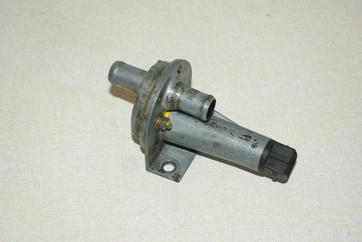 K-Jetronic auxilary air device 0 280 140 132